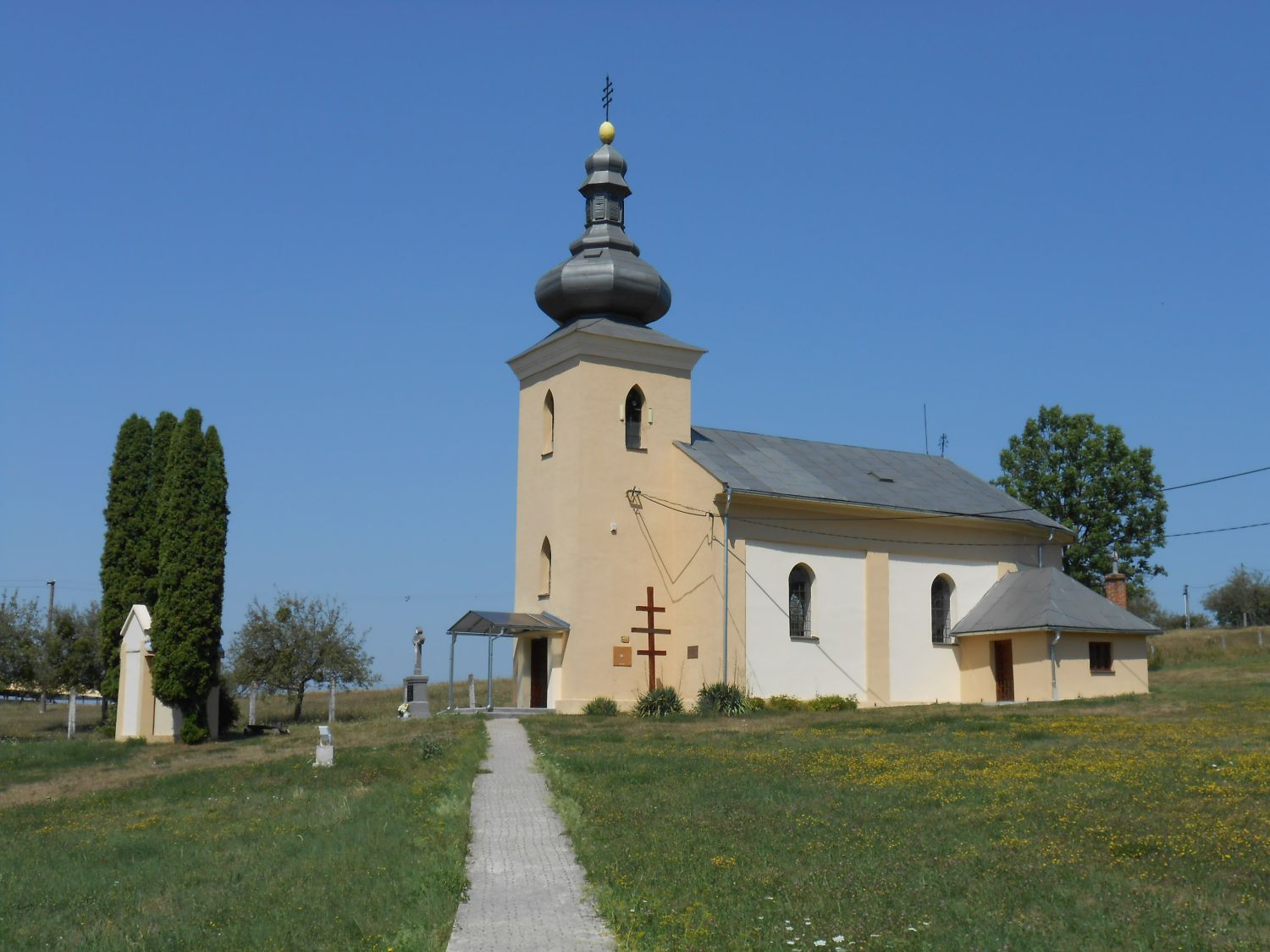 Church of the Nativity of the Virgin Mary in Košický Klečenov